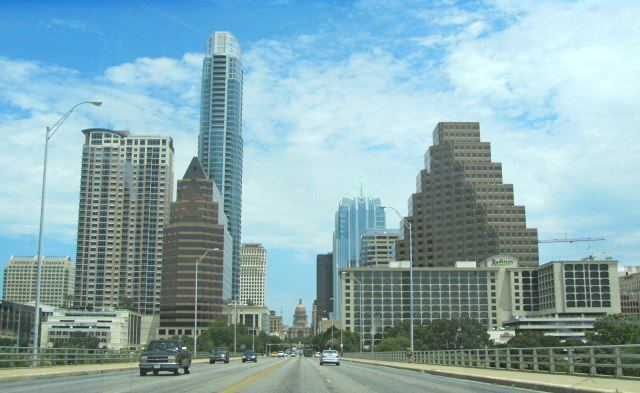 View of Austin from Congress Street Bridge, Austin State Capitol is visible in background